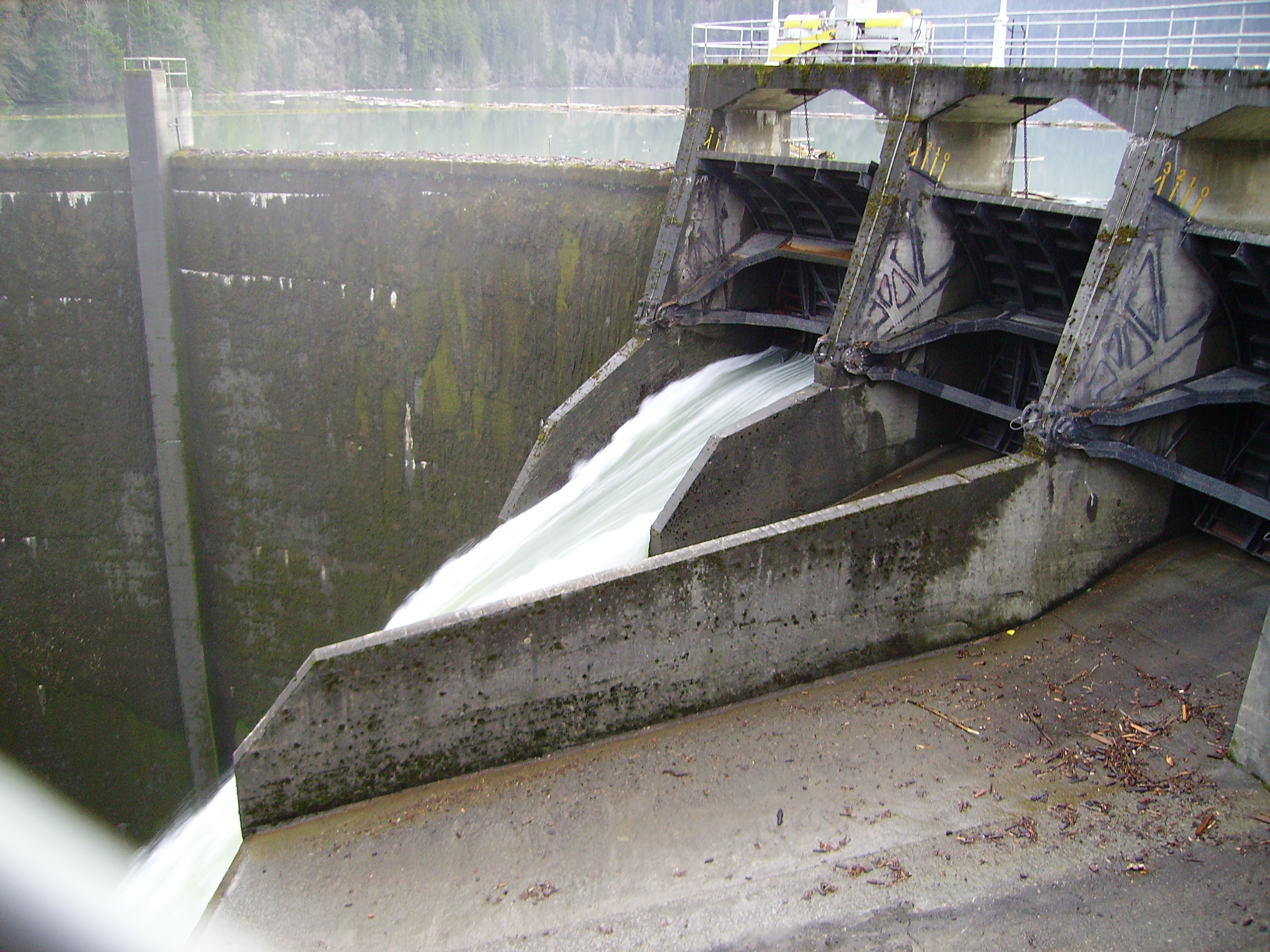 Glines Canyon Dam, Washinton, United States Source is self and not on internet